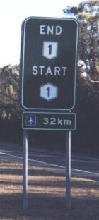 End of National Route 1 and start of Metroad 1 at Waterfall on the southern outskirts of Sydney. Photograph taken by me and cropped by User:Kirjtc2.